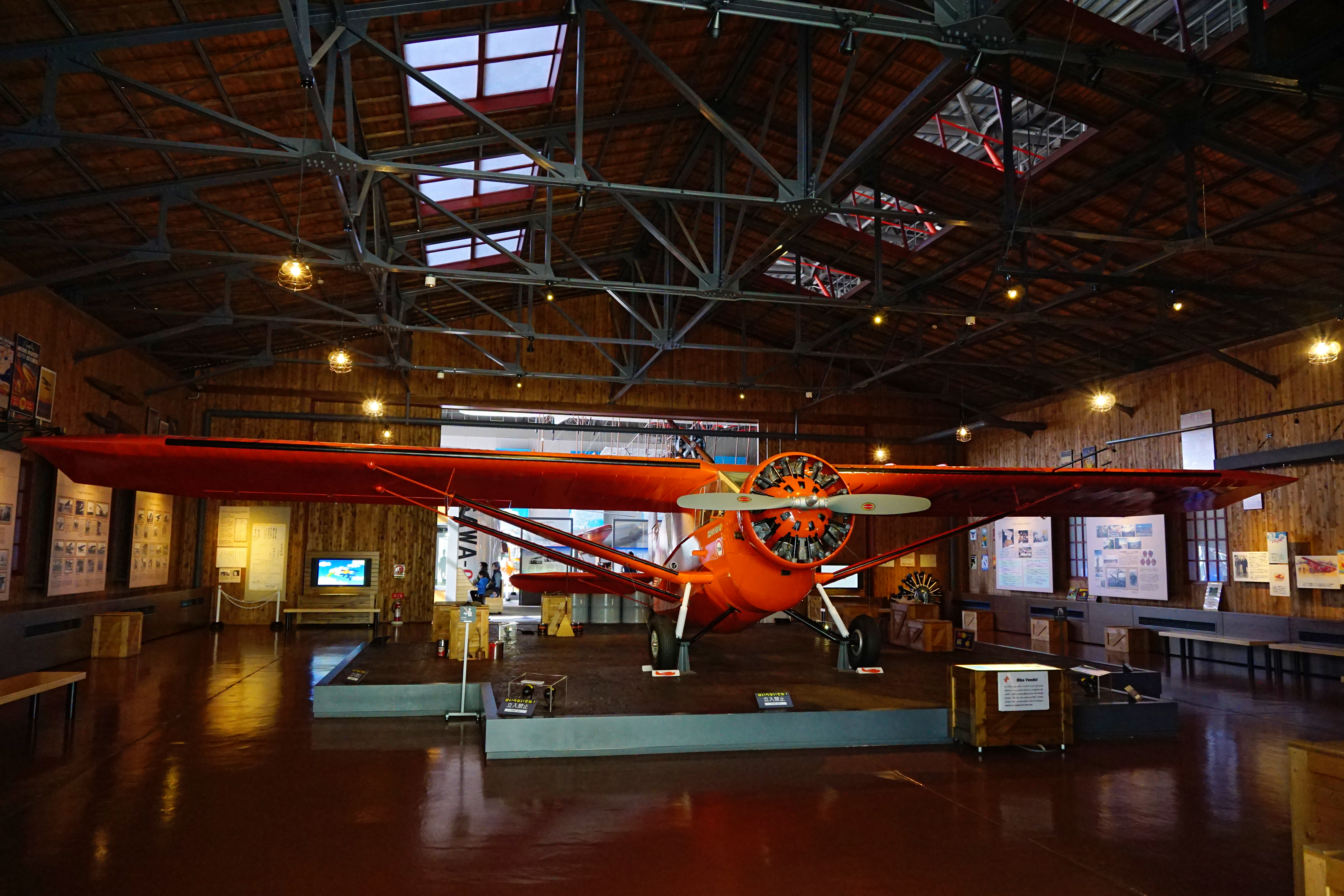 At Misawa Aviation & Science Museum, Aomori in Misawa, Aomori prefecture, Japan.